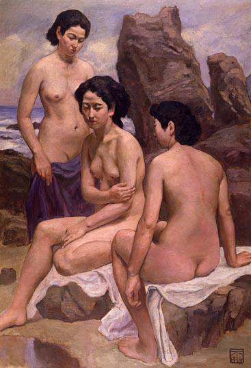 Three girls in the shore.